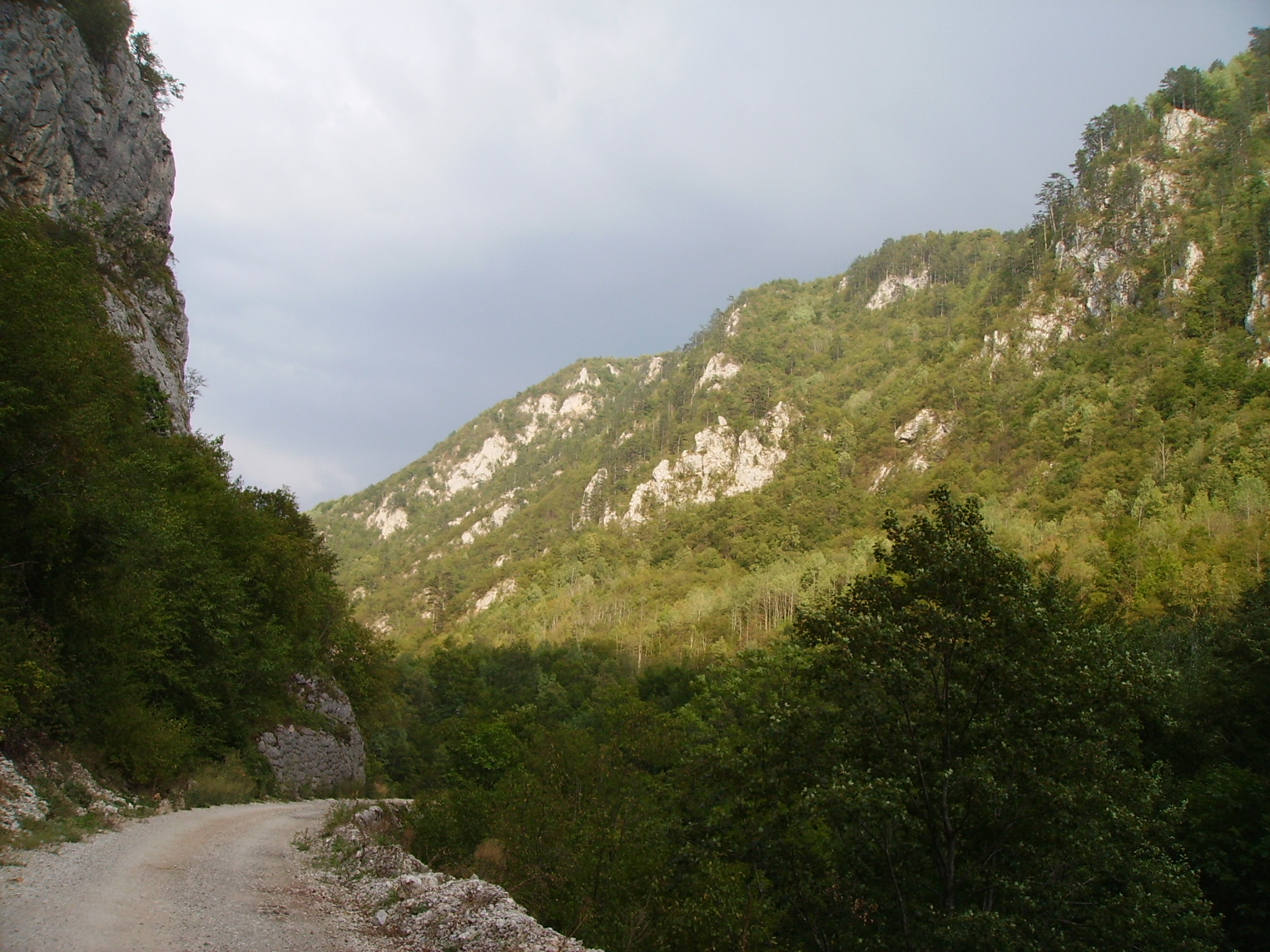 Bosnia, Magistralna cesta 5 in the valley of River Prača east of Renovica.